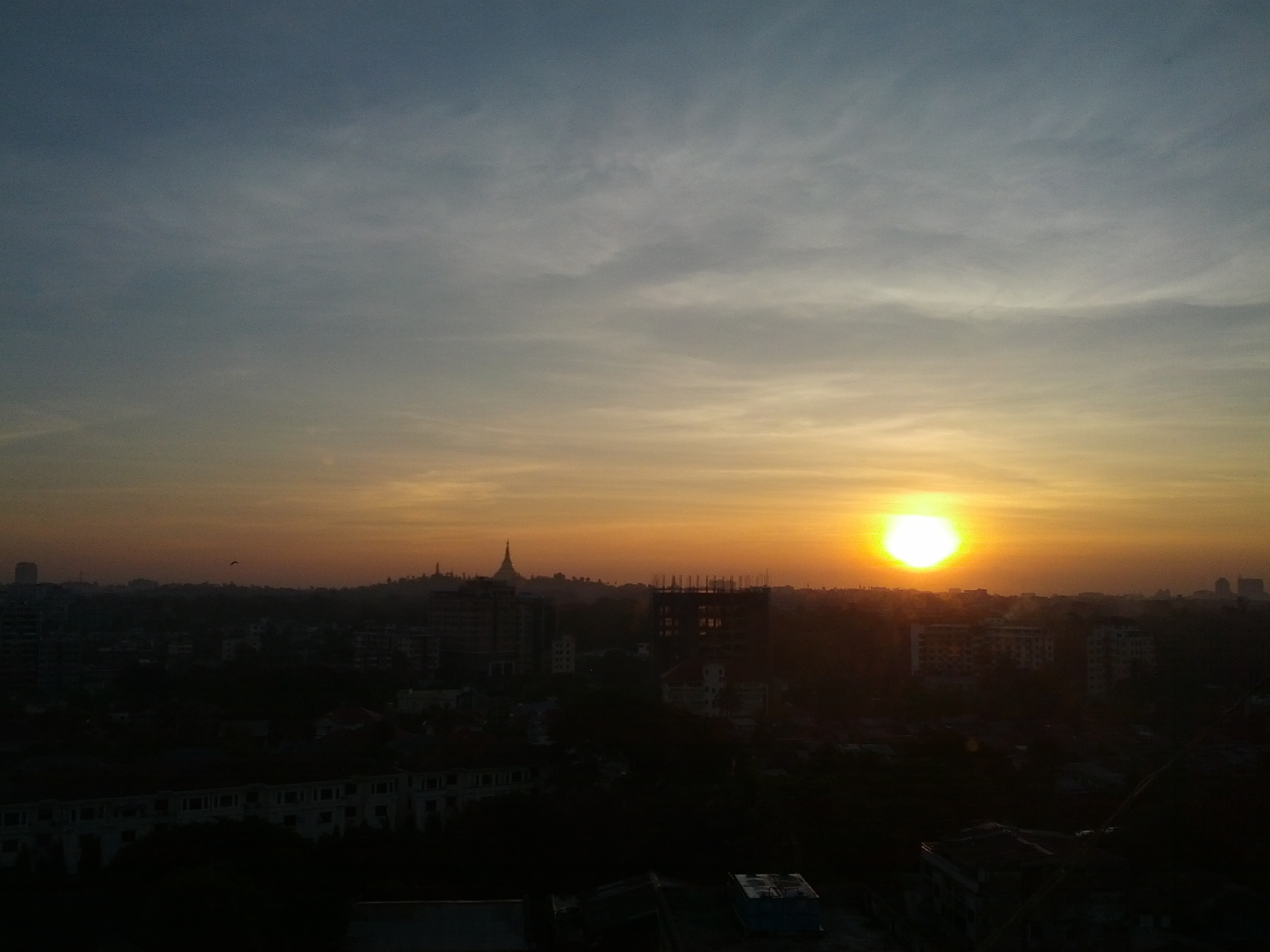 Sunrise of Yangon taking from 11th story of Shwe Gon Thu Condominium, Kyimyindine Township